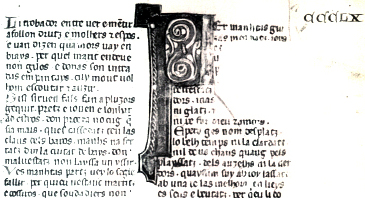 Text of folio 360 (CCCLX in the image) of troubadour chansonnier MS "C", now BnF f. f. 856. Note that someone long ago cut out the miniatures that decorated the page (the blank square next to the initial). The song shown is attributed to Lo reis Namfos.